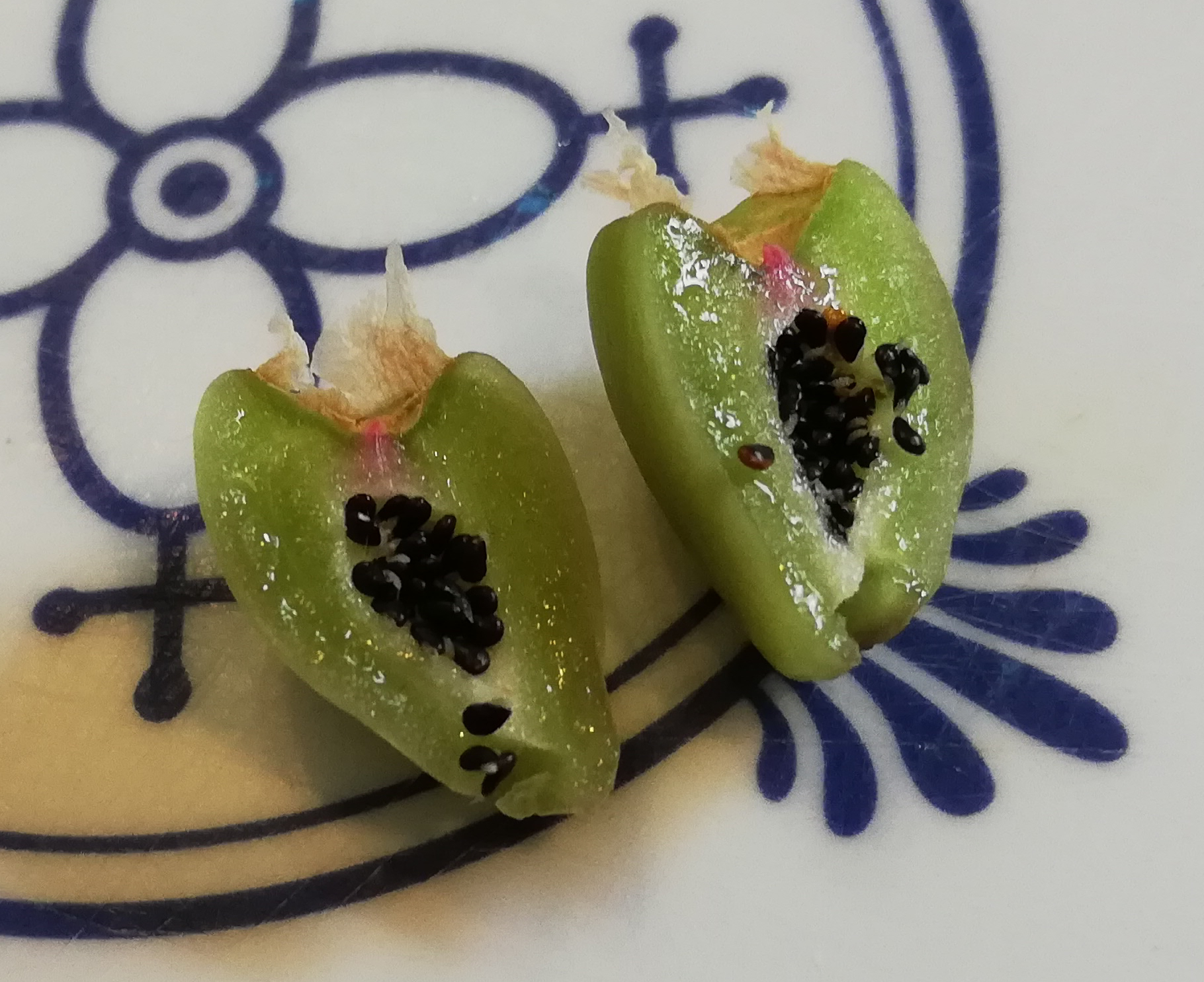 A cut-open fruit of Schlumbergera Truncata Gp. The fruit was picked in May 2019, and the plant pollinated in December 2018. From Brussels, Belgium. Length of the fruit is between 1.0 cm and 1.5 cm.